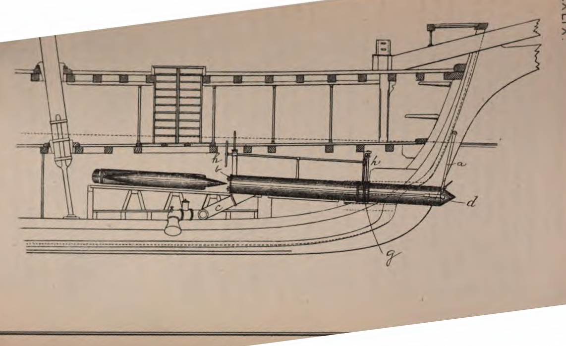 The torpedo installation in the Austro-Hungarian gunboat Gemse in 1868 was the first example of a launching mechanism for a self-powered (in this case a Whitehead) torpedo.